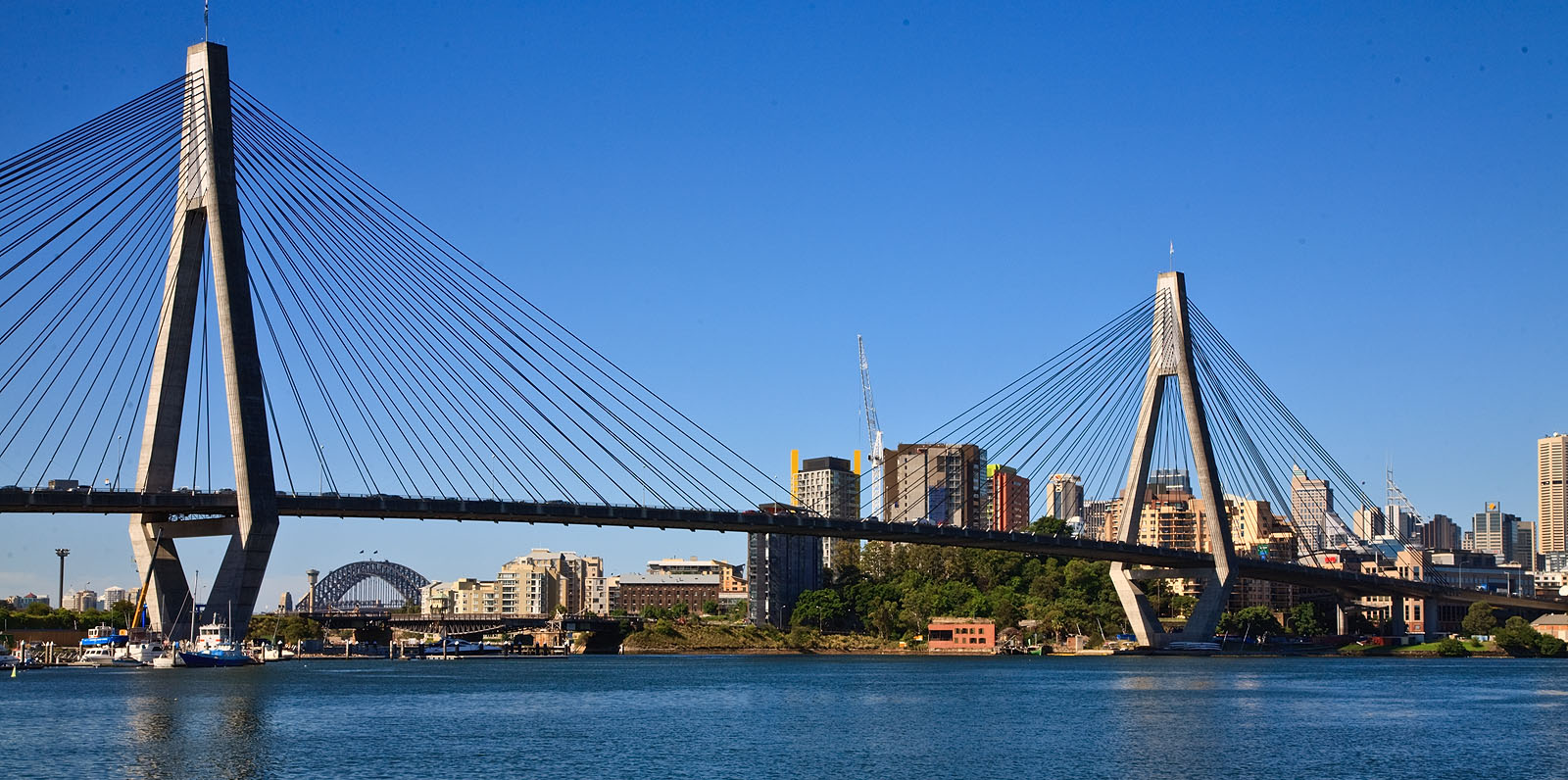 Anzac Bridge & Sydney harbour Bridge from Glebe Point (Suburban Sydney, Australia) IMG_6421 View On Black